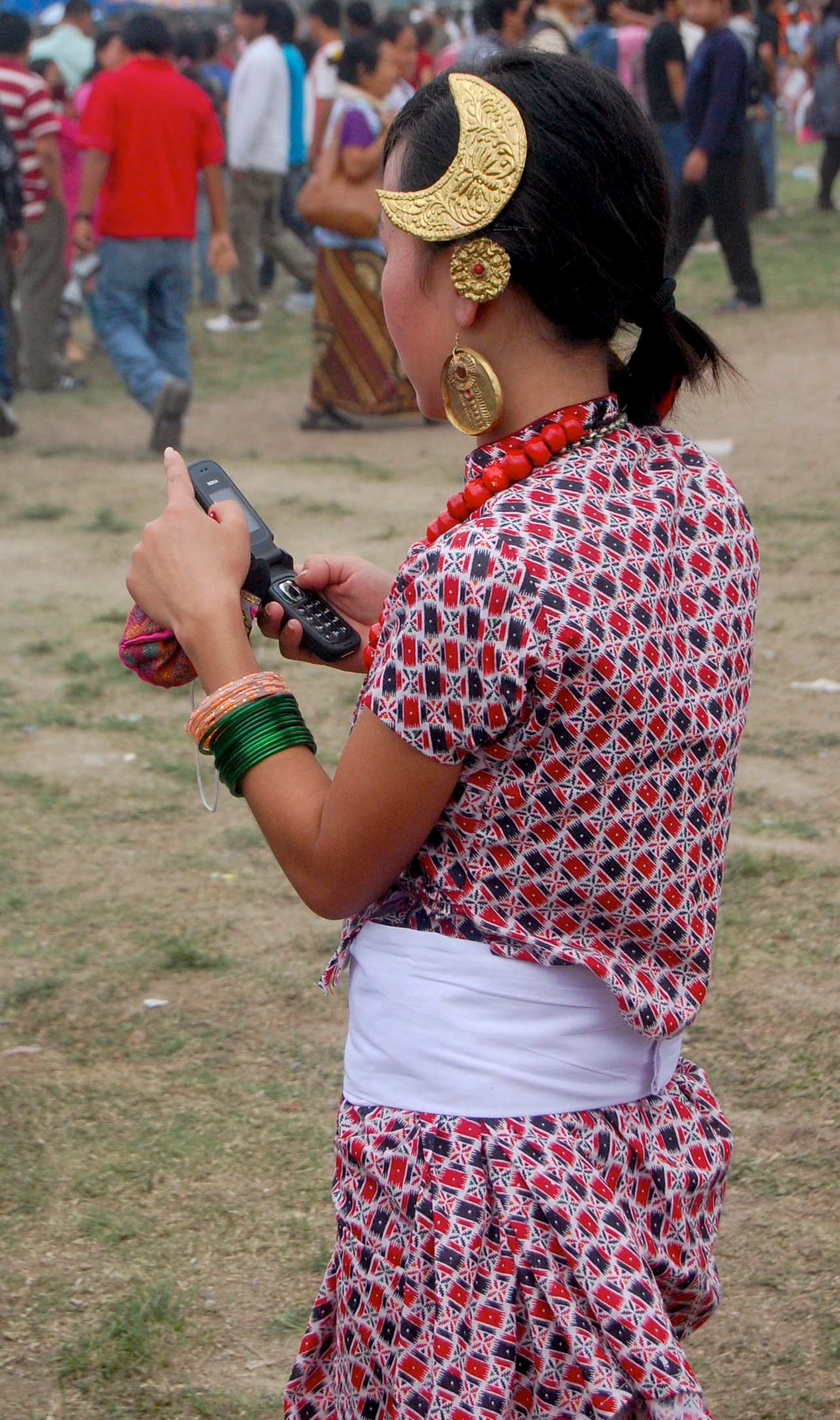 Kirati lady using cellphone wearing traditional costume, Tudhikhel Nepal 2009